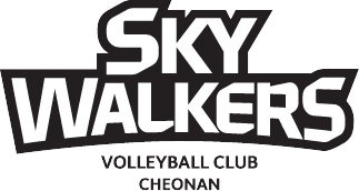 heonan Hyundai Capital Skywalkers logo